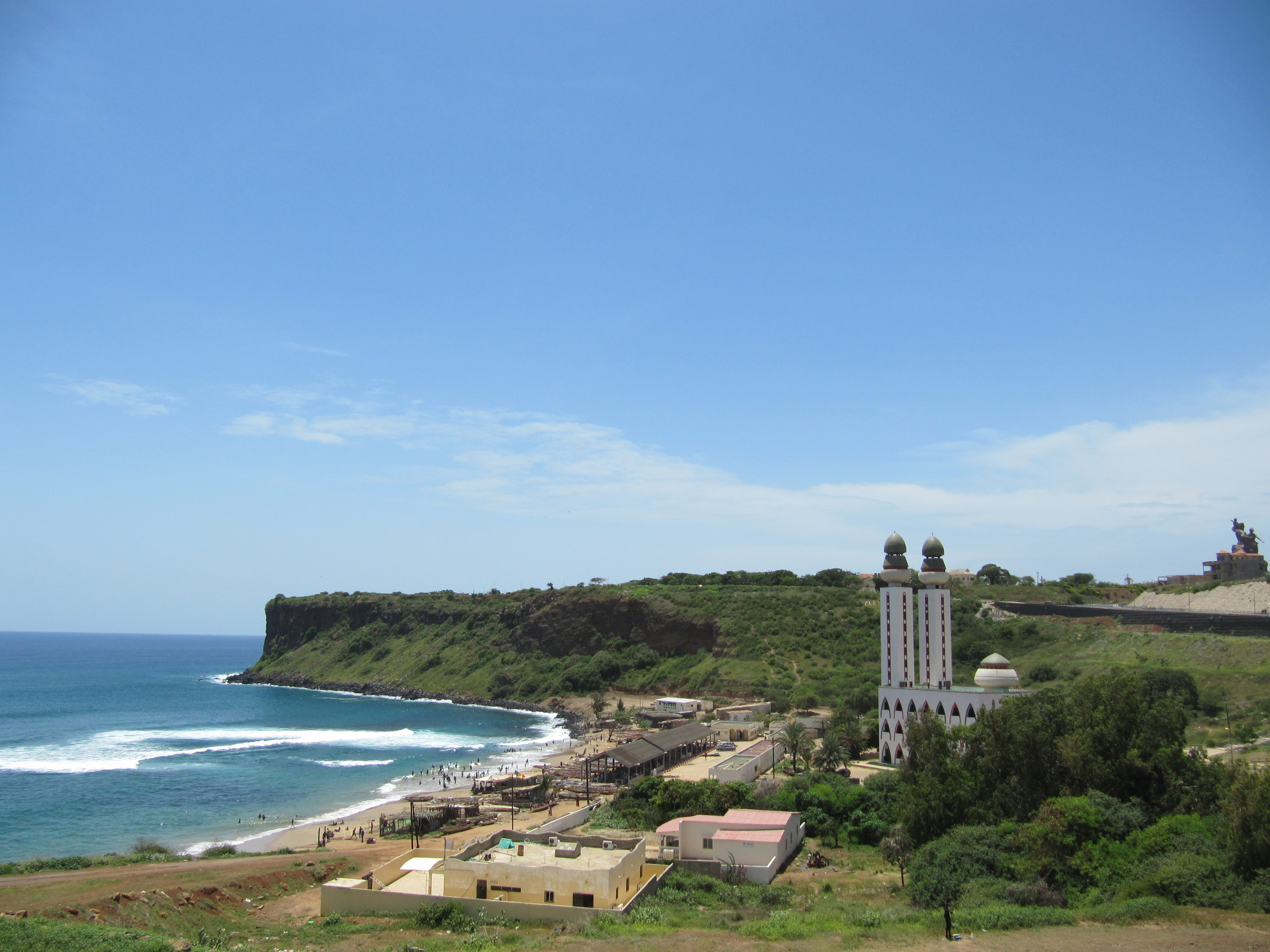 Divinity Mosque (and eponymous surf spot), Ouakam, Dakar